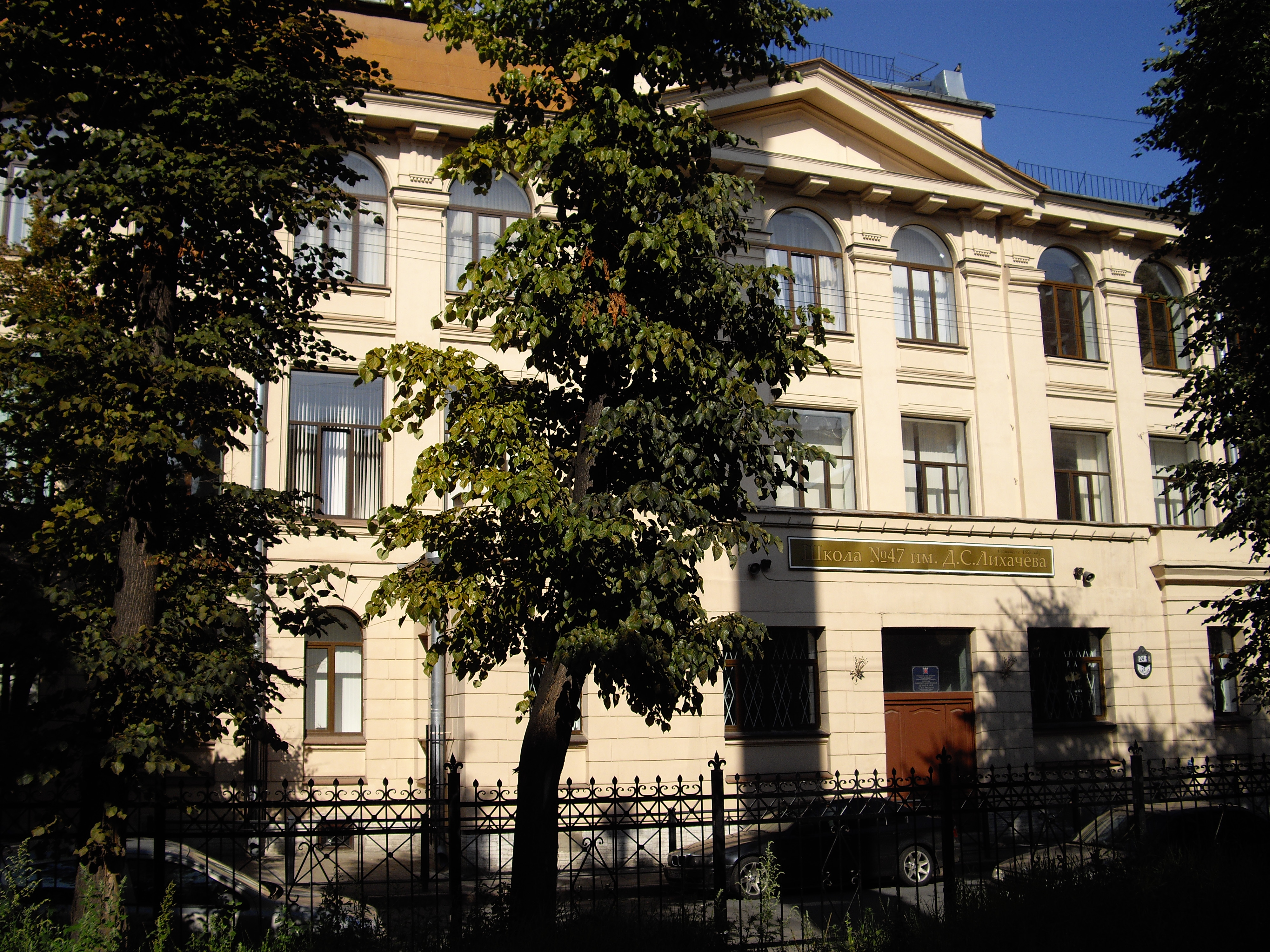 24, Plutalova Street (Saint-Petersburg, Russia). Architect Hermann Grimm, 1905.